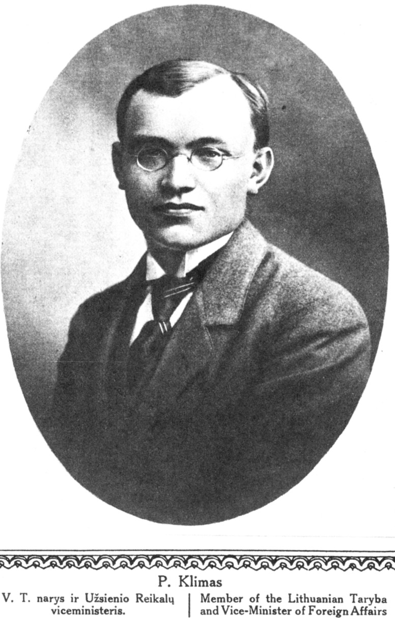 Petras Klimas, one of signatories of the Act of Independence of Lithuania, lawyer, historian, diplomatLietuvių: Petras Klimas, Lietuvos nepriklausomybės akto signataras, teisininkas, istorikas, publicistas, redaktorius, diplomatas, užsienio reikalų ministras